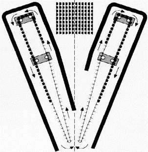 وهو منصب توضع عليه الكونات في عملية التسدية